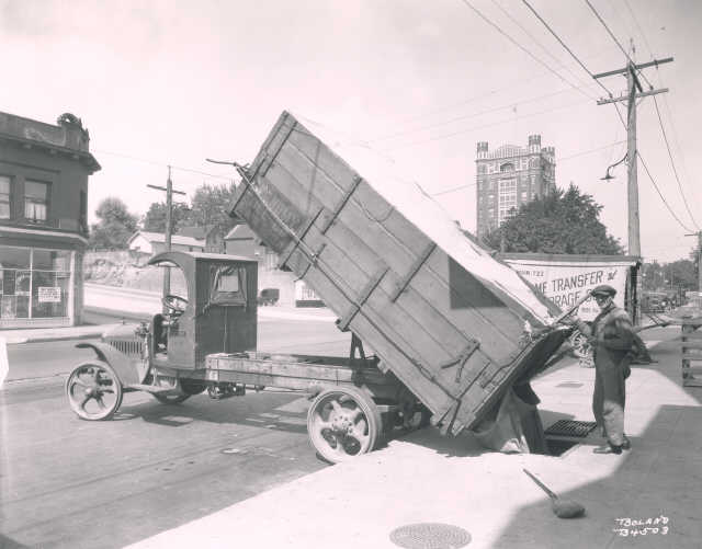 A truckload of coal is being delivered to the Lucerne Block, 901 Tacoma Avenue South, by Economy Fuel in August of 1921. The fuel company's driver pauses his shifting of the coal to gaze at the camera. The coal is being deposited in the building's coal bin through a coal hole in the sidewalk. The buildings across the street would be demolished in the early 1950s so the County-City Building with jail could be built on the site. In the far background is Central School now used by the Tacoma School District as its Administrative Building.